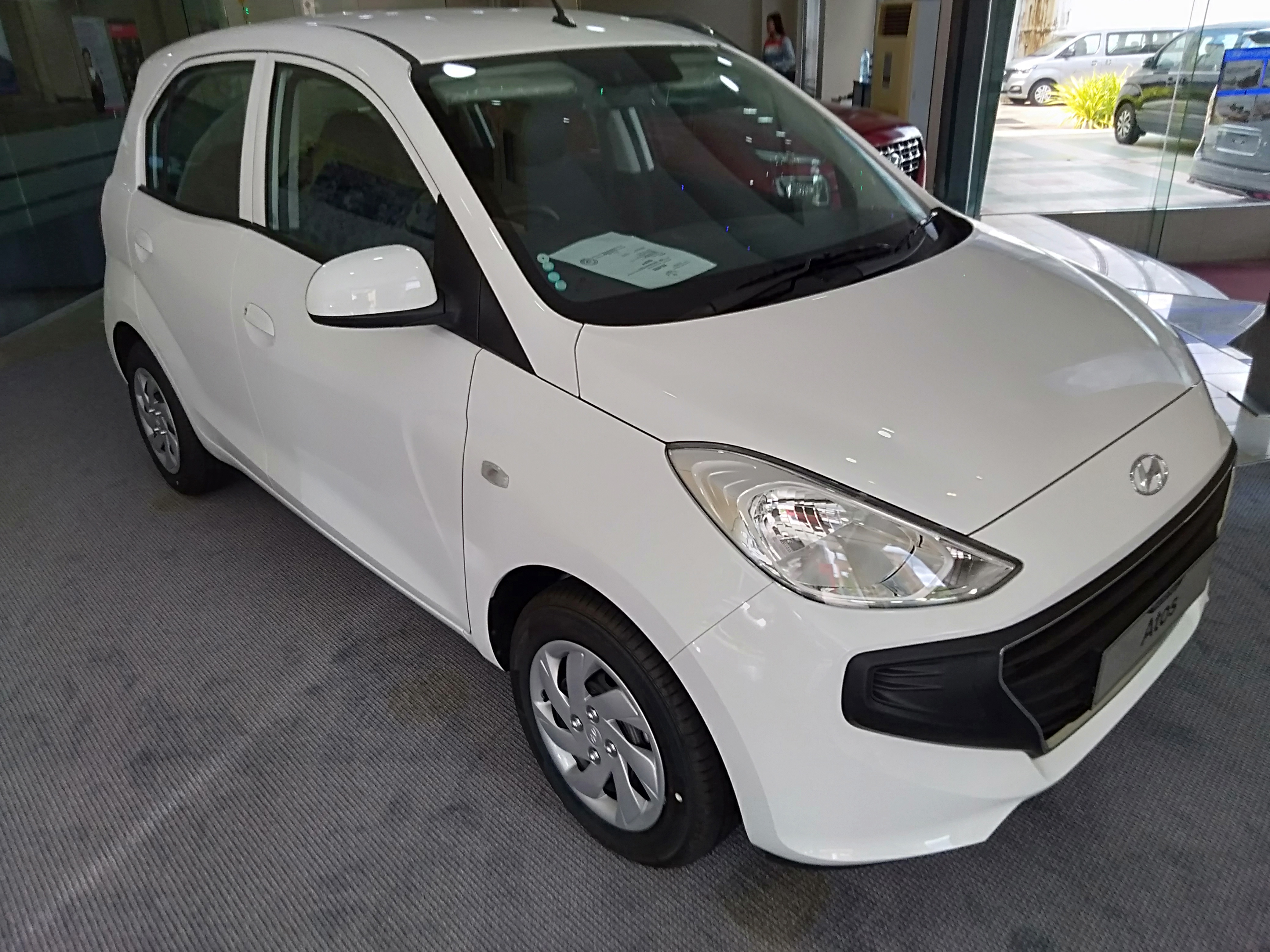 2021 Hyundai Atos 1.1 Pure Base finished in white colour front view. Photographed at Setia Motors Hyundai Bunut, Brunei.